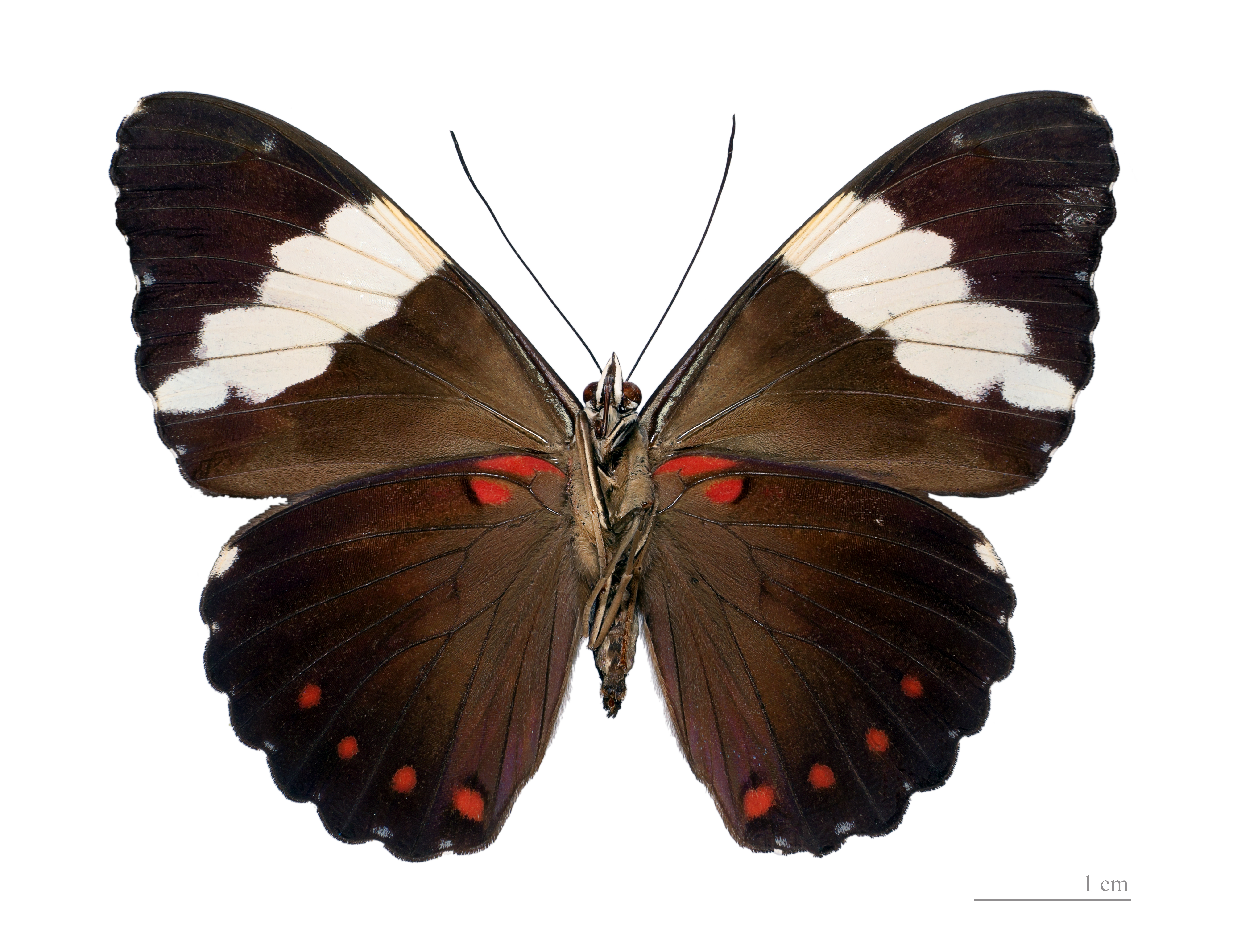 ♂ - △ Ventral side Locality : Route de Kaw, PK38, French Guiana.